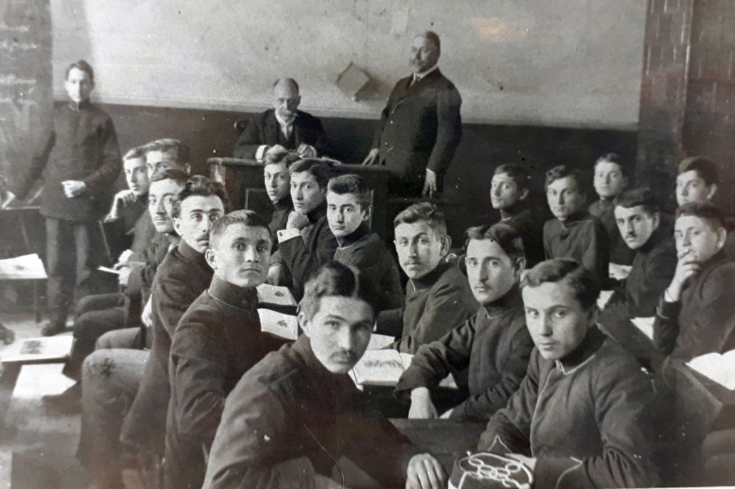 Marin Radulescu attended the prestigious Gheorghe Lazar highschool, where his English teacher was Henry Lolliot, author of an English - Romanian dictionary